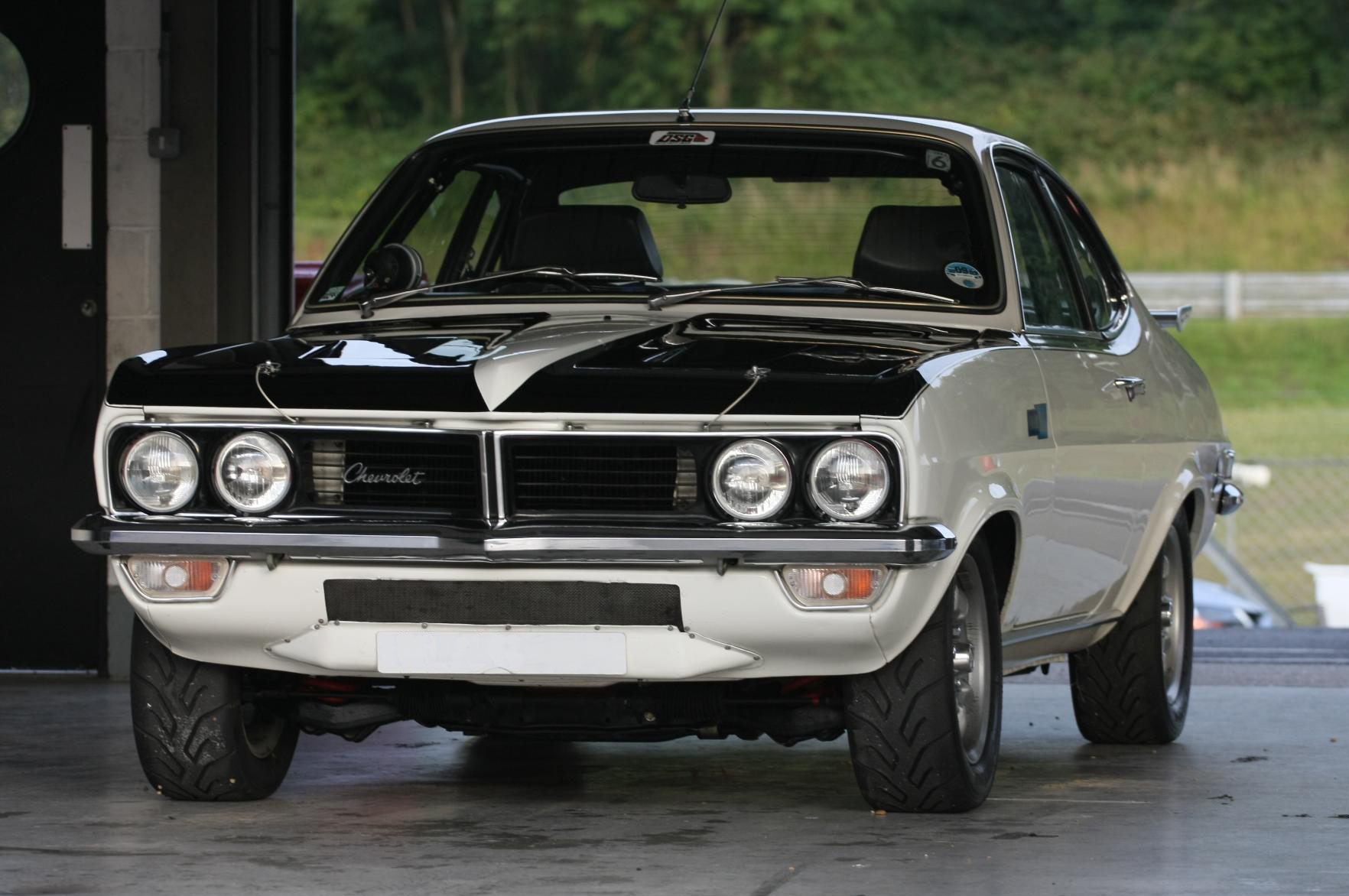 1973 Chevrolet Firenza CanAm 302 at Brands Hatch, July 2009. This South African homologation special, based on the Vauxhall Viva, packed a 5-litre Chevy V8 in a very compact package.